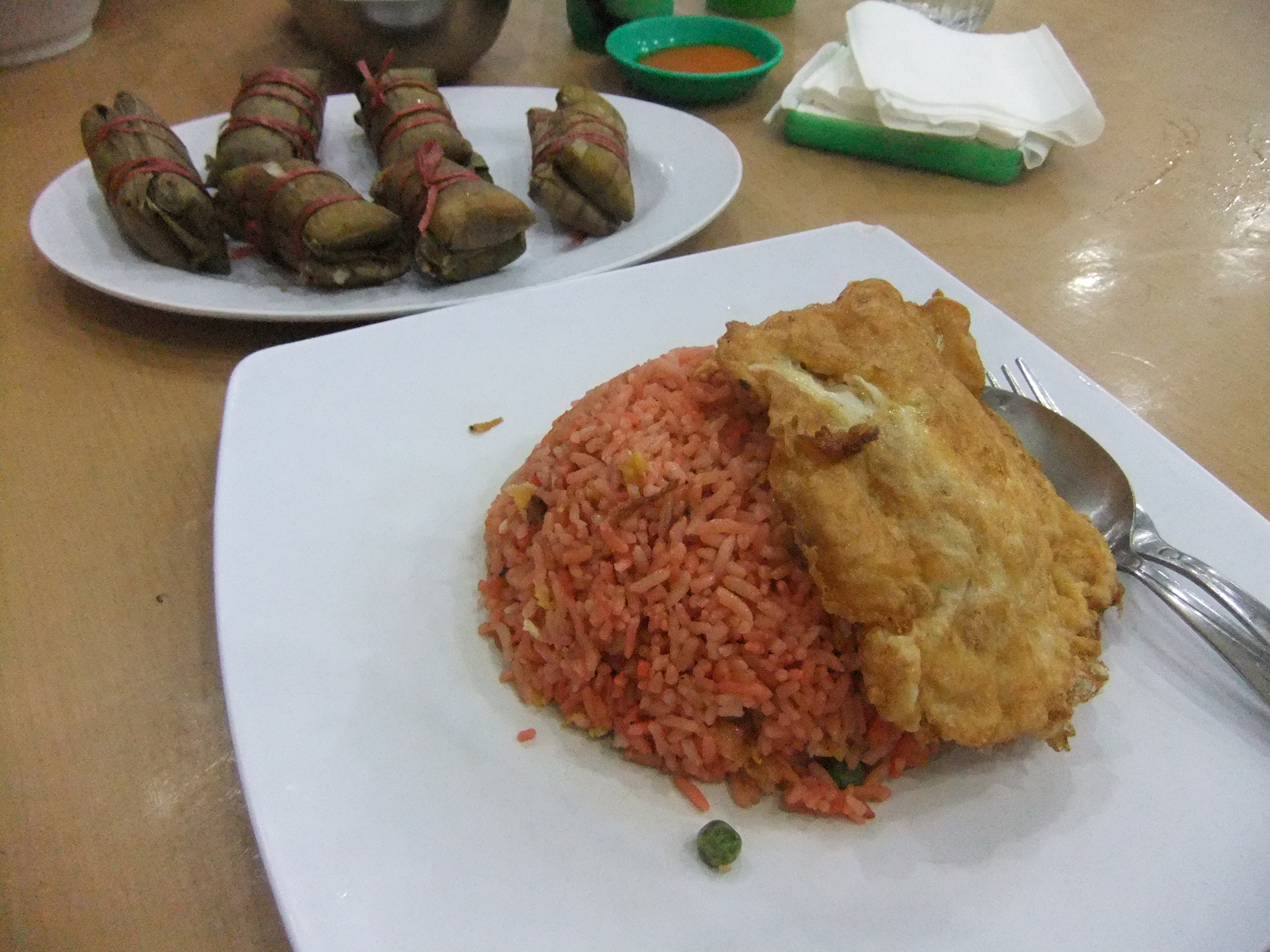 Red fried rice, Makassar